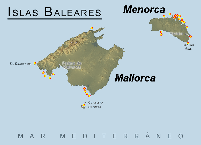 Podarcis lilfordi range